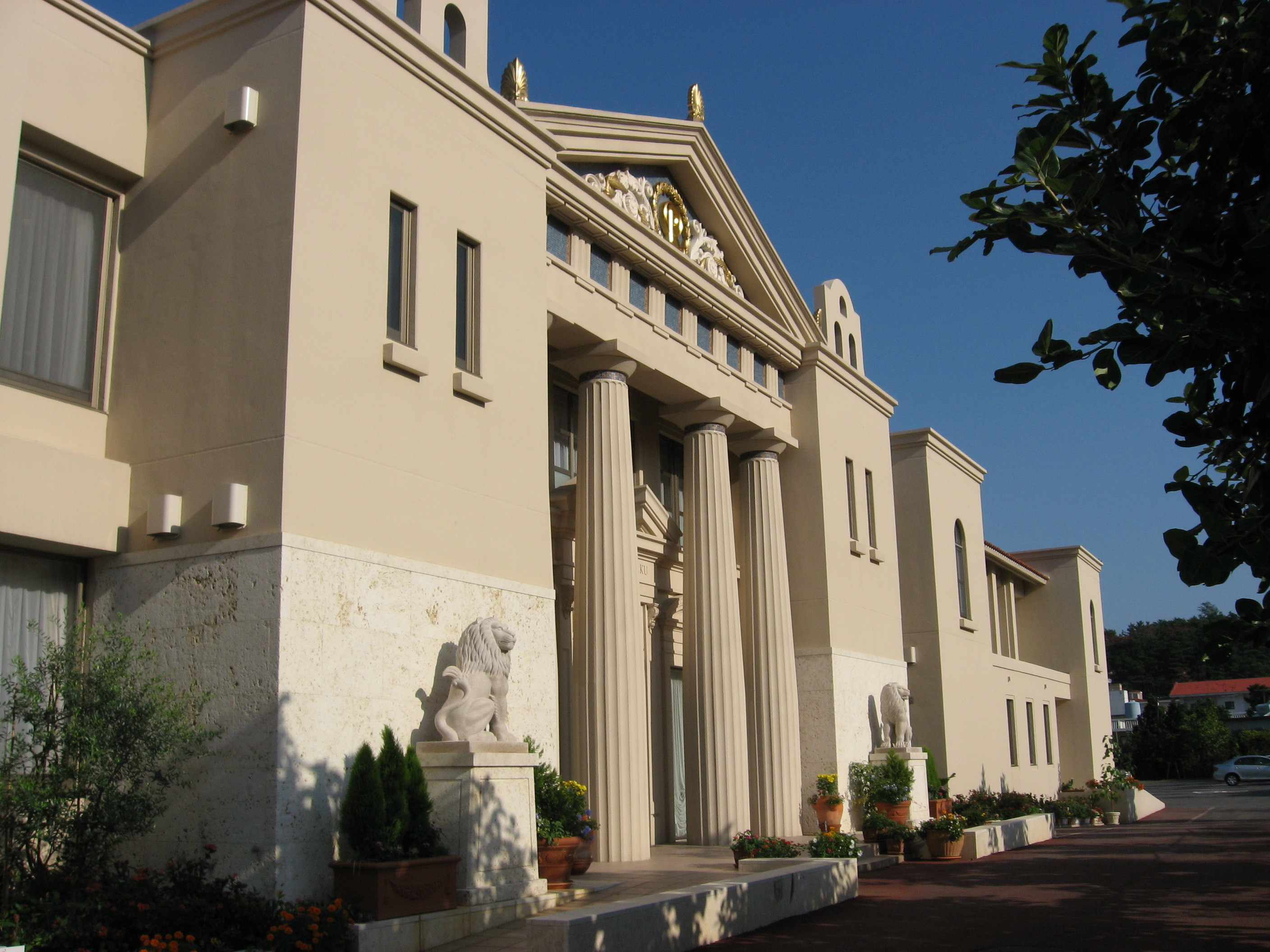 Okinawa Shoshinkan, a monastery of Happy Science